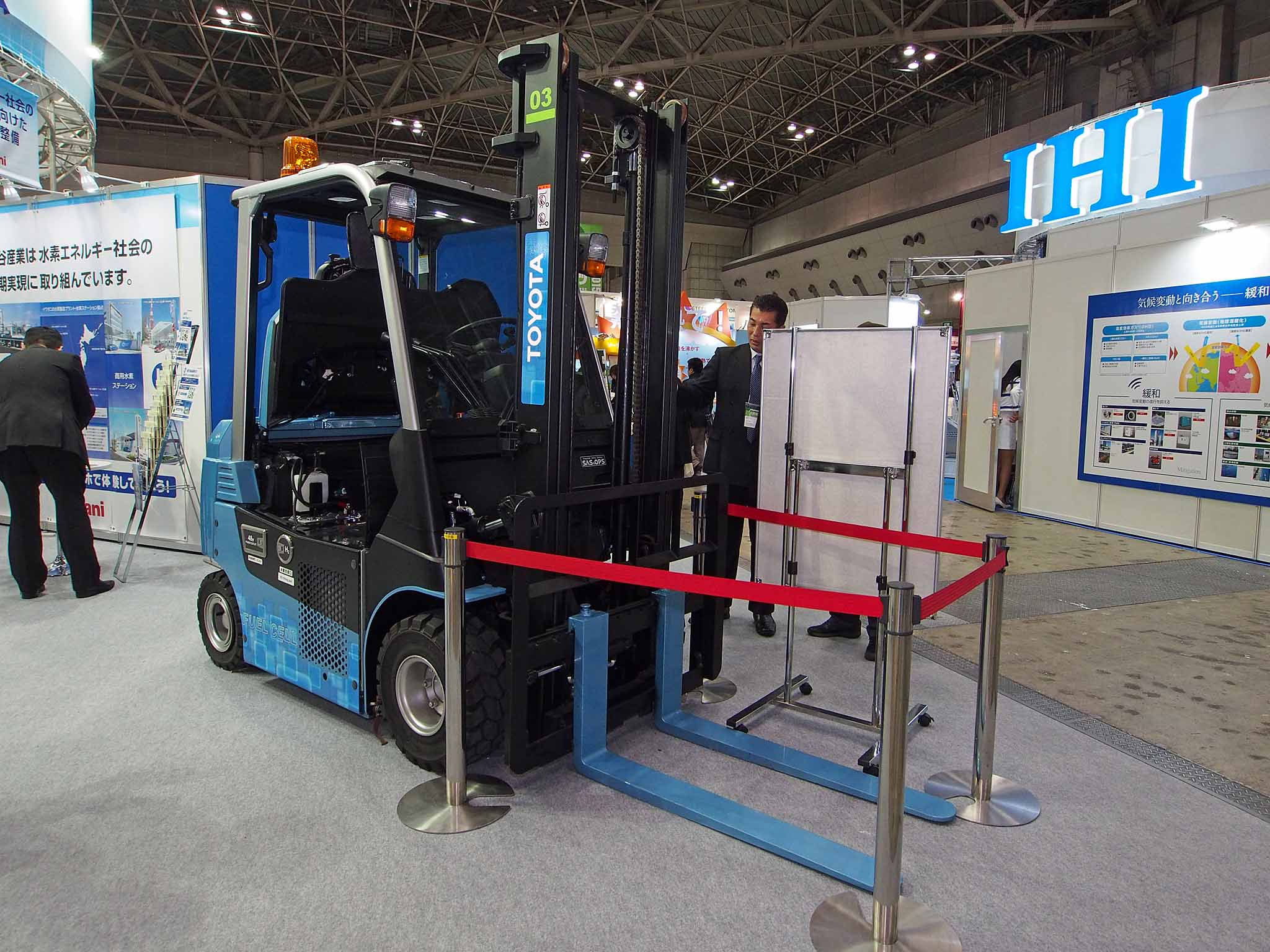 Toyota L&F "Fuel Cell powered forklift", displayed at Eco-Products 2015. Based model: 7FB25